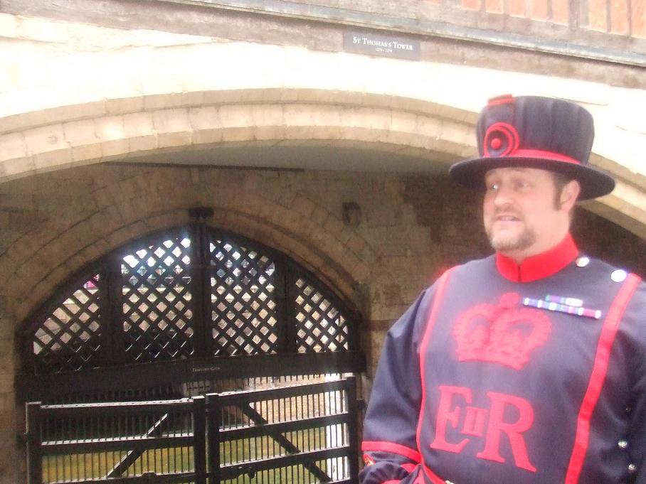 Pic of Chris Skaife, Ravenmaster in front of Traitor's Gate